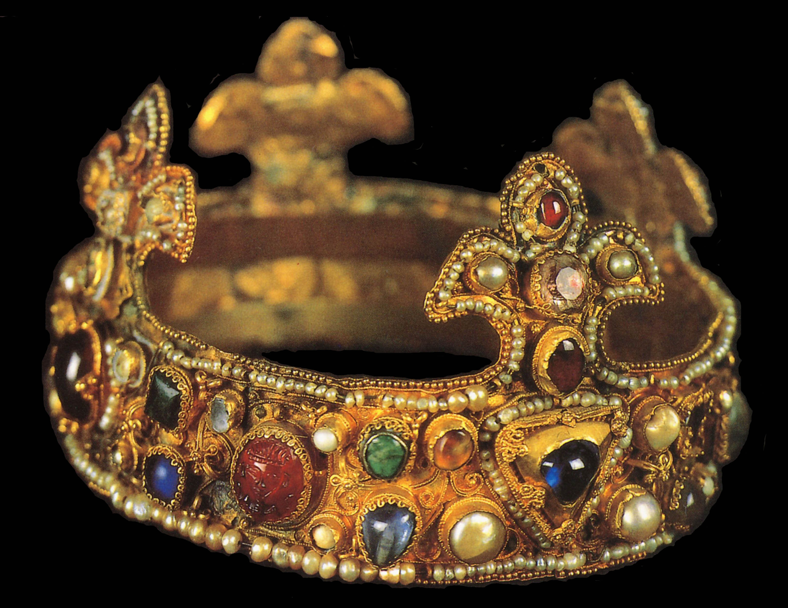 Ottonian crown on display at Essen's cathedral treasury, ca. 1100. Long believed to be the infant crown of king of Romans Otto III.